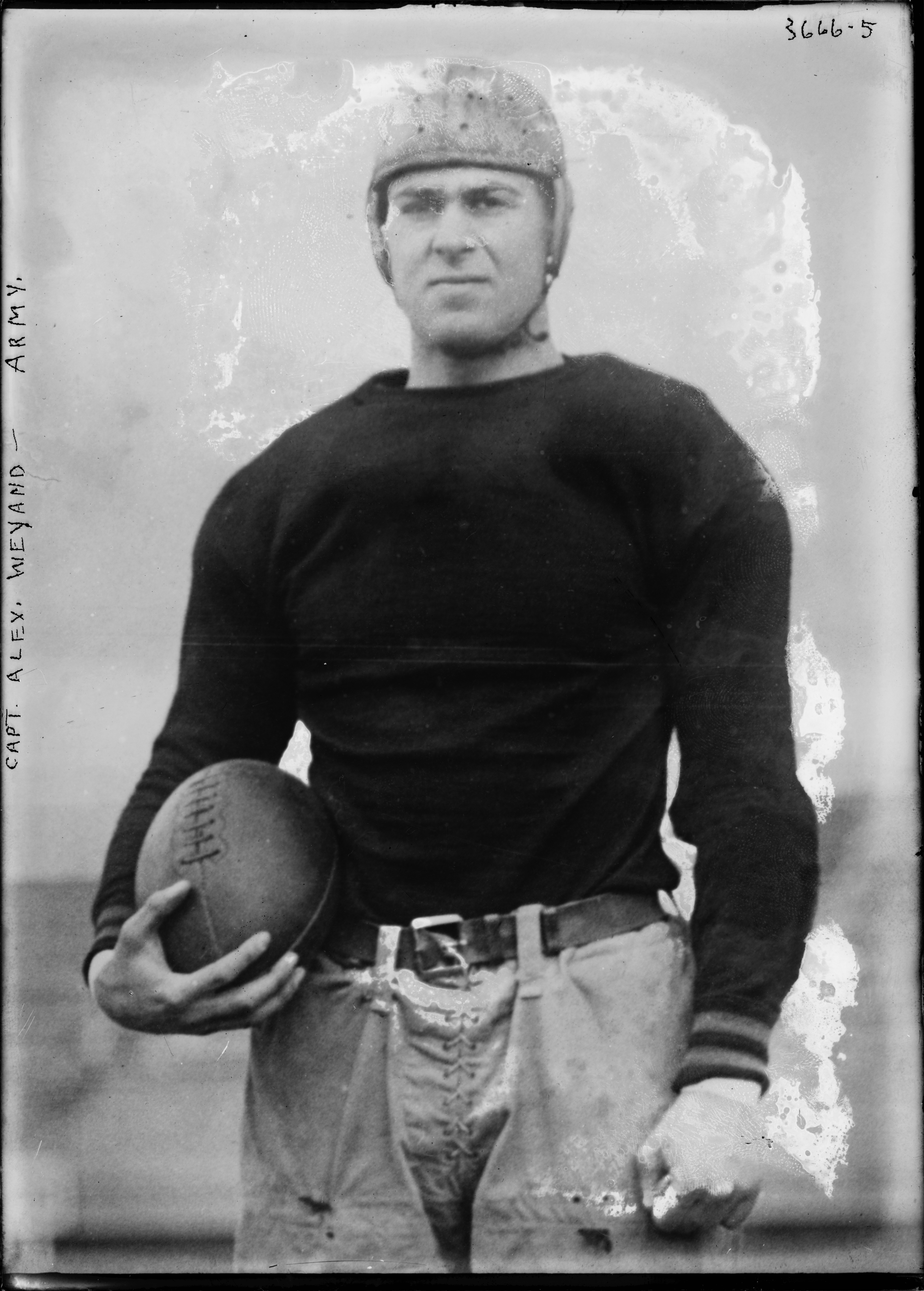 Alex Weyand